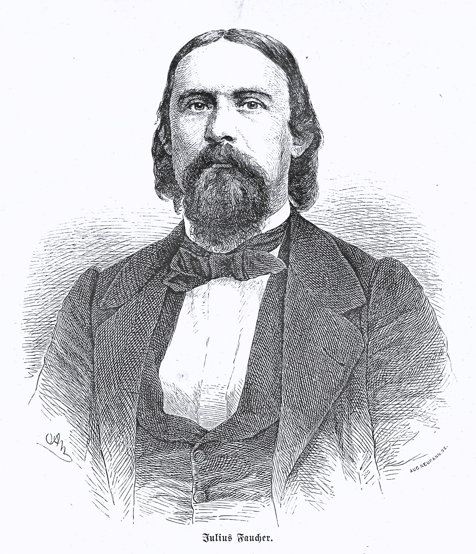 caption: "Julius Faucher."